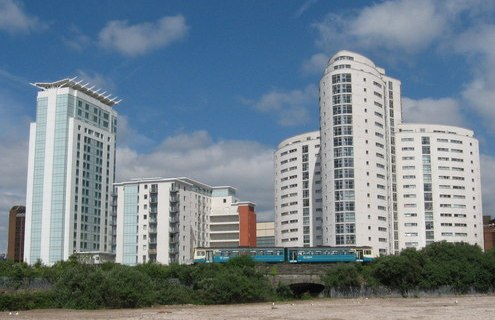 Meridian Gate (left) and Altolusso (right), Cardiff